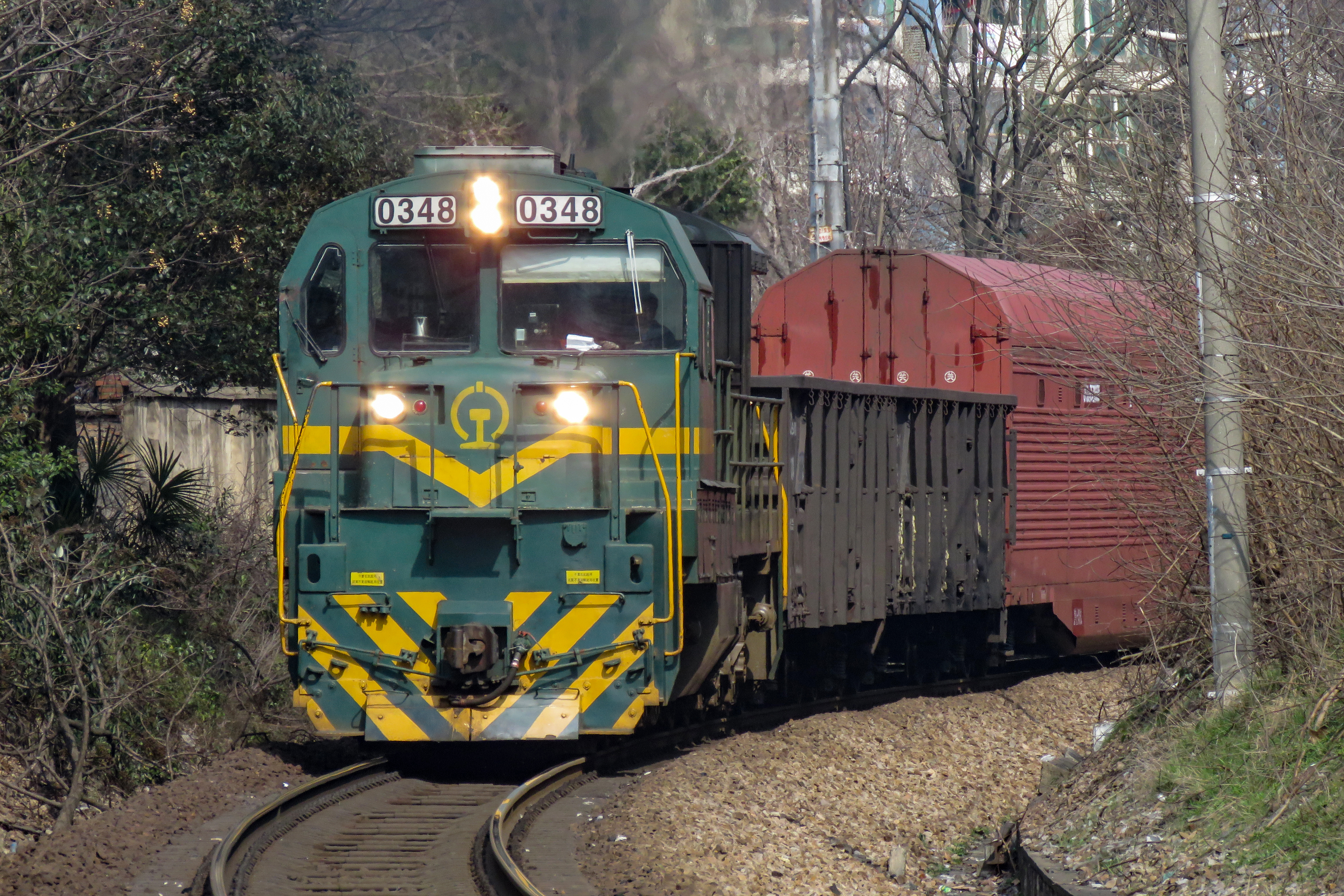 Final days of the "Big Yankee" on this line.